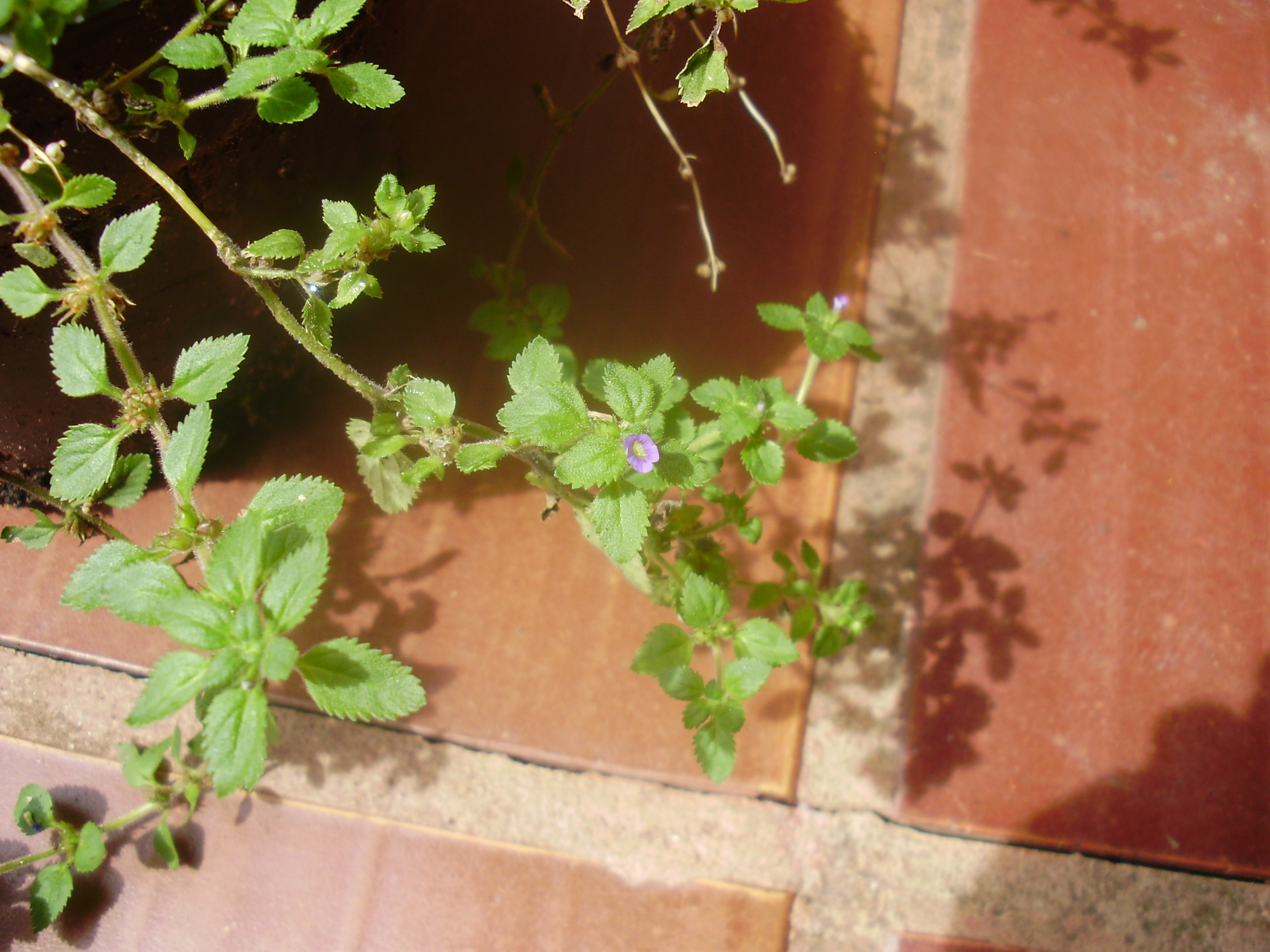 Detail of the plant.